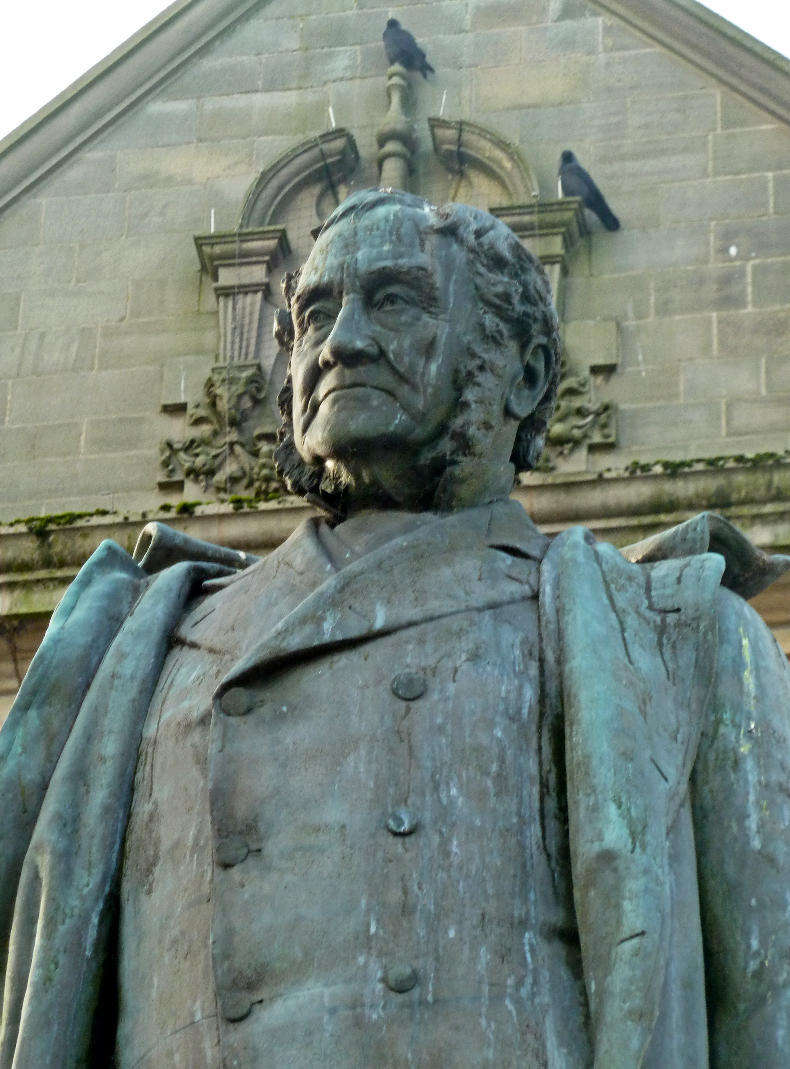 Statue of Sir Mathew Wilson, High Street, Skipton